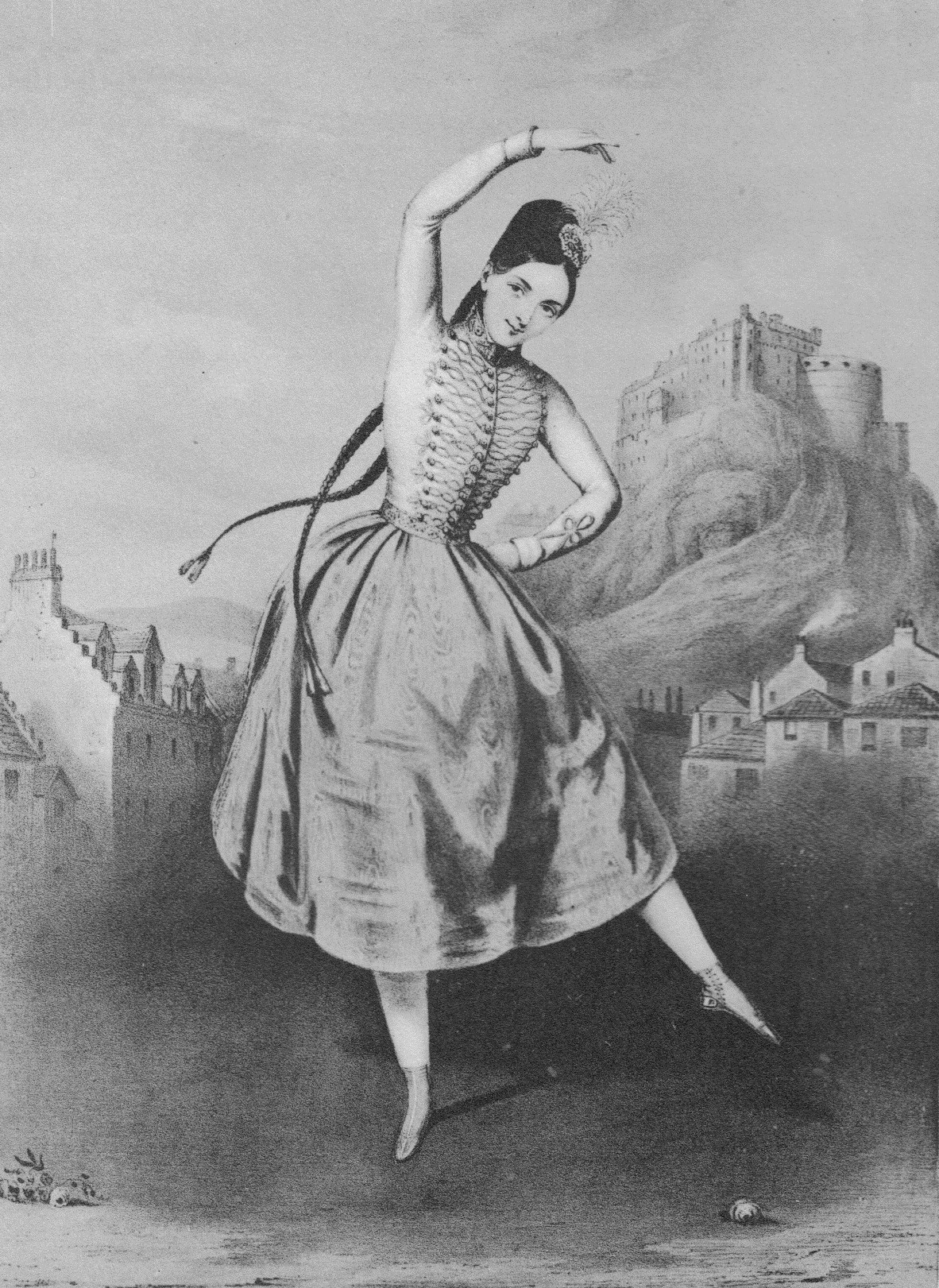 Fanny Elssler dancing the krakowiak as Sarah Campbell in the ballet La Gypsy, first staged at Paris in 1839 and performed in the same year at Her Majesty's Theatre in London. The action takes place in Edinburgh, hence the background showing Edinburgh Castle.